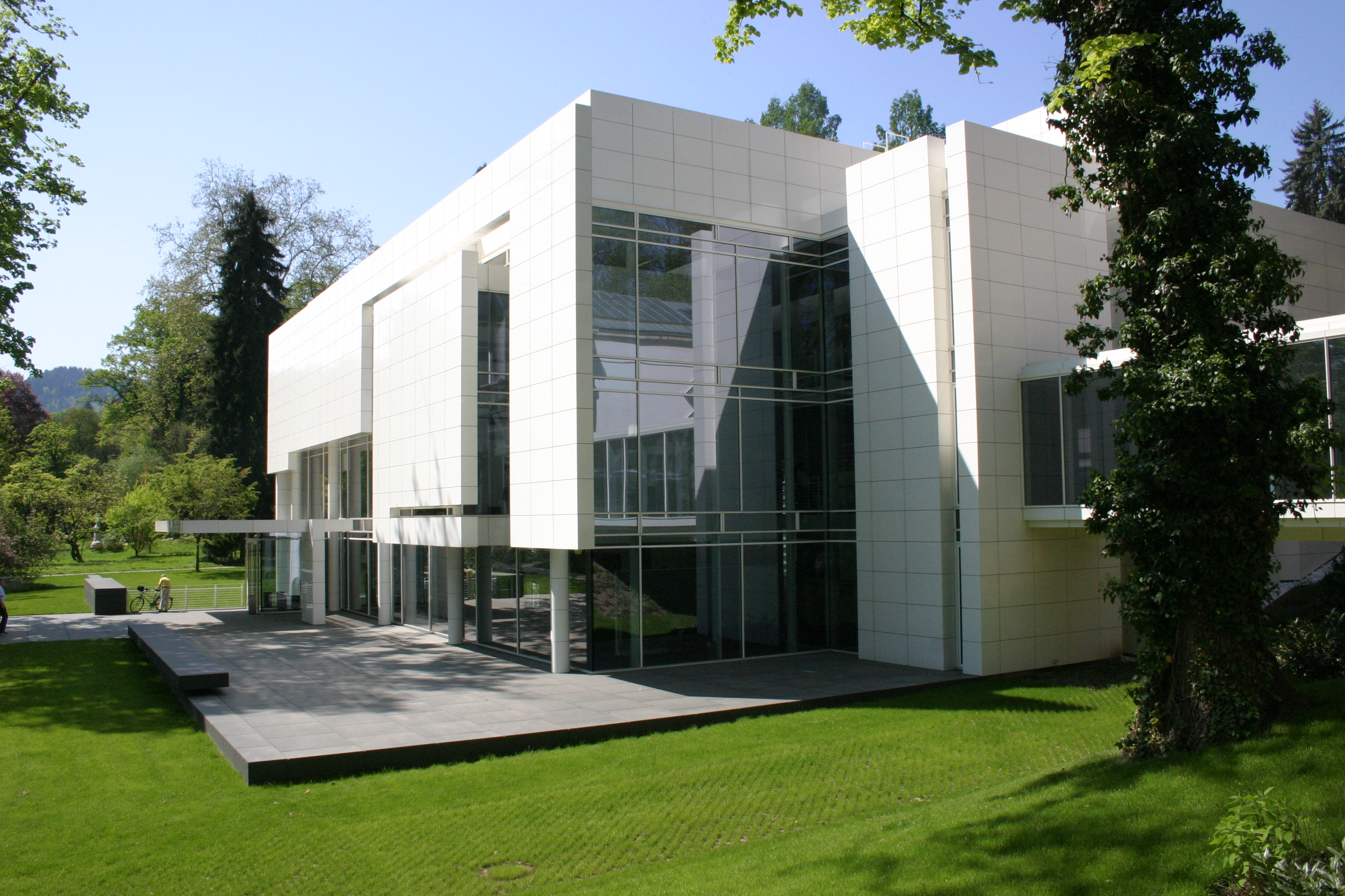 Museum Frieder Burda, Baden-Baden, Germany.